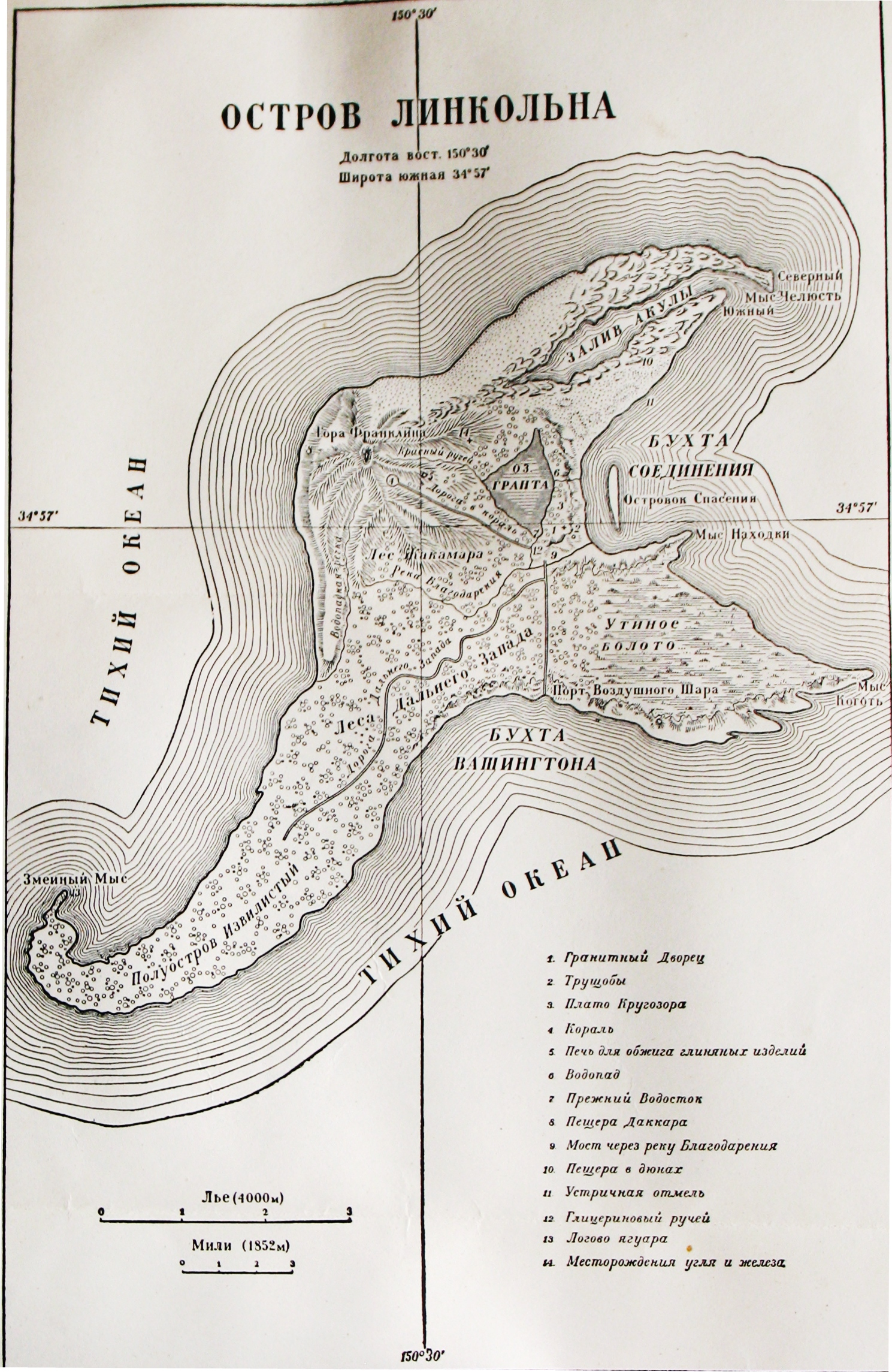 Jules Verne. The Mysterious Island map.